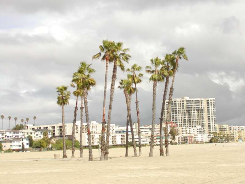 Beach park in Long Beach, Los Angeles County, California.